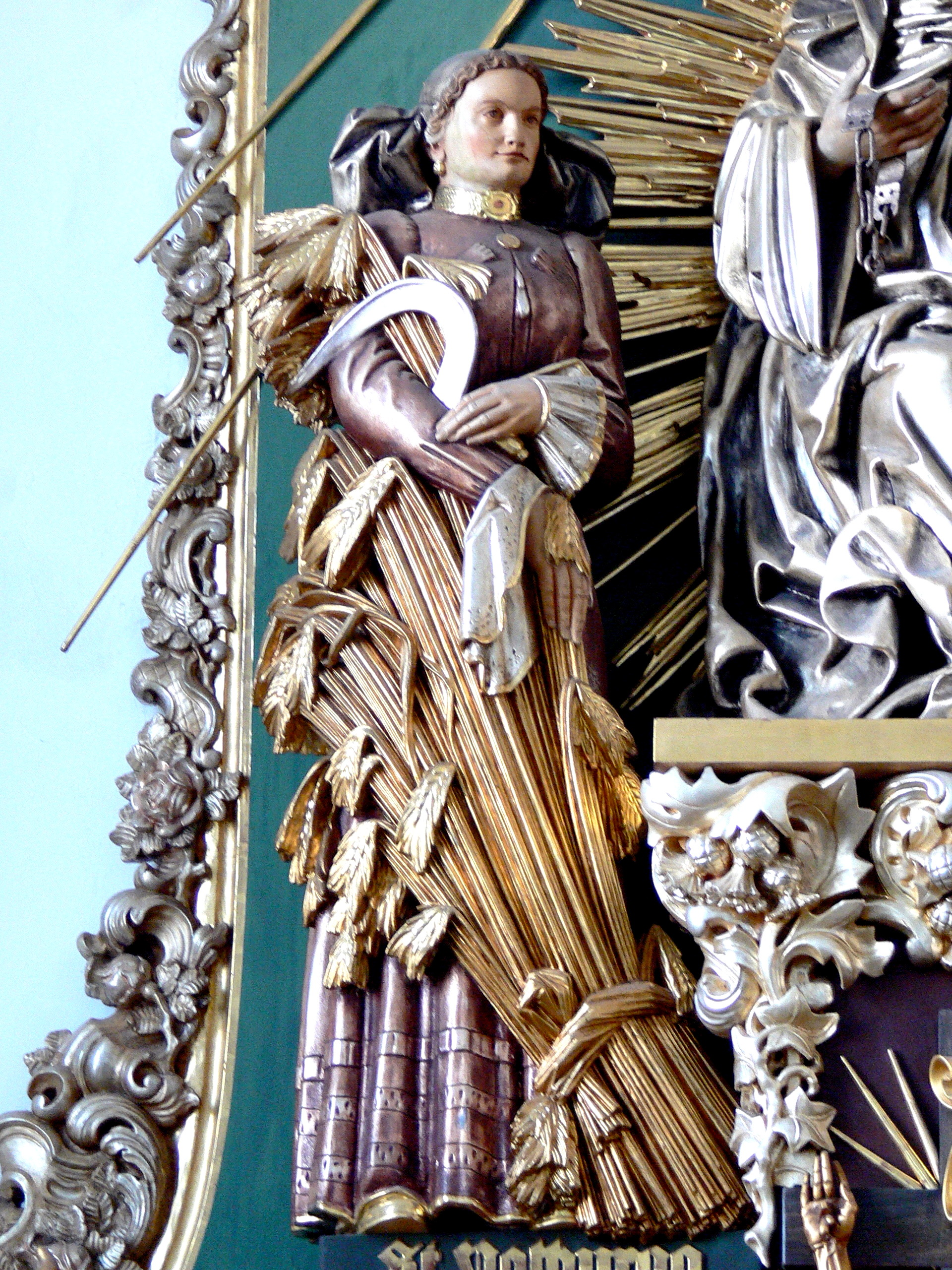 Sarleinsbach ( Upper Austria ). Saint Peter parish church: Baroque revival altar of Saint Leonard - detail: Statue of Saint Notburga of Rattenberg ( 1945 ).